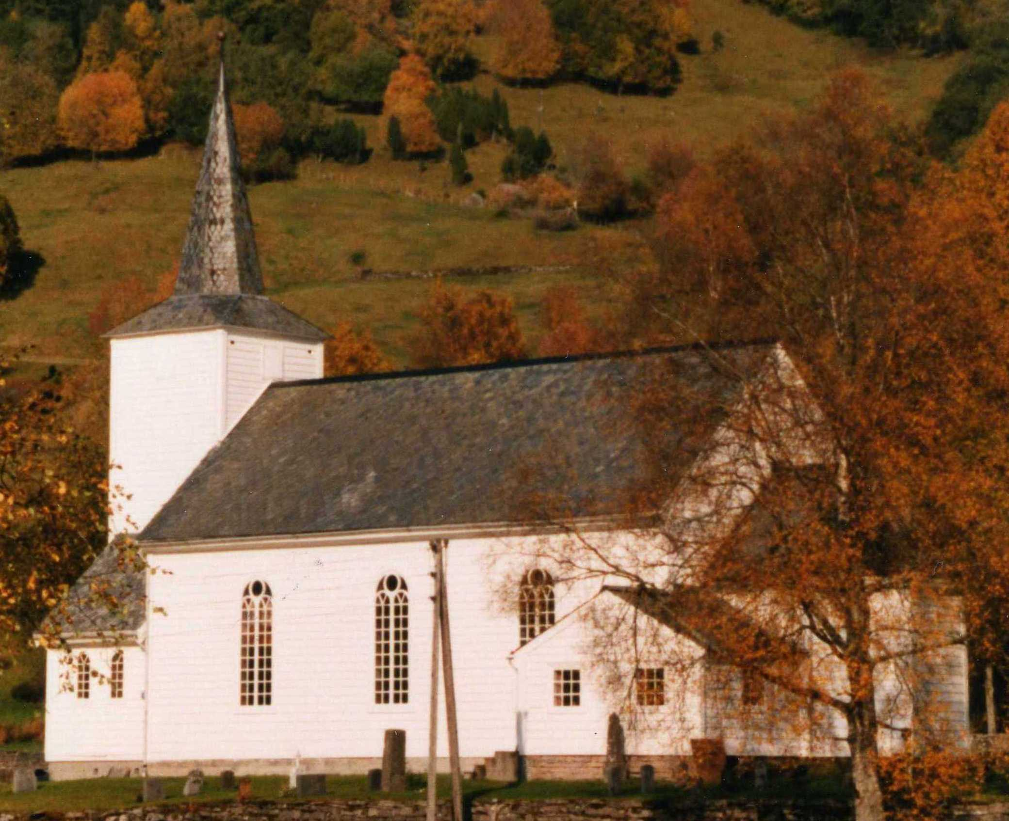 The church at Sande in Gaular municipality, Sogn og Fjordane county, Norway